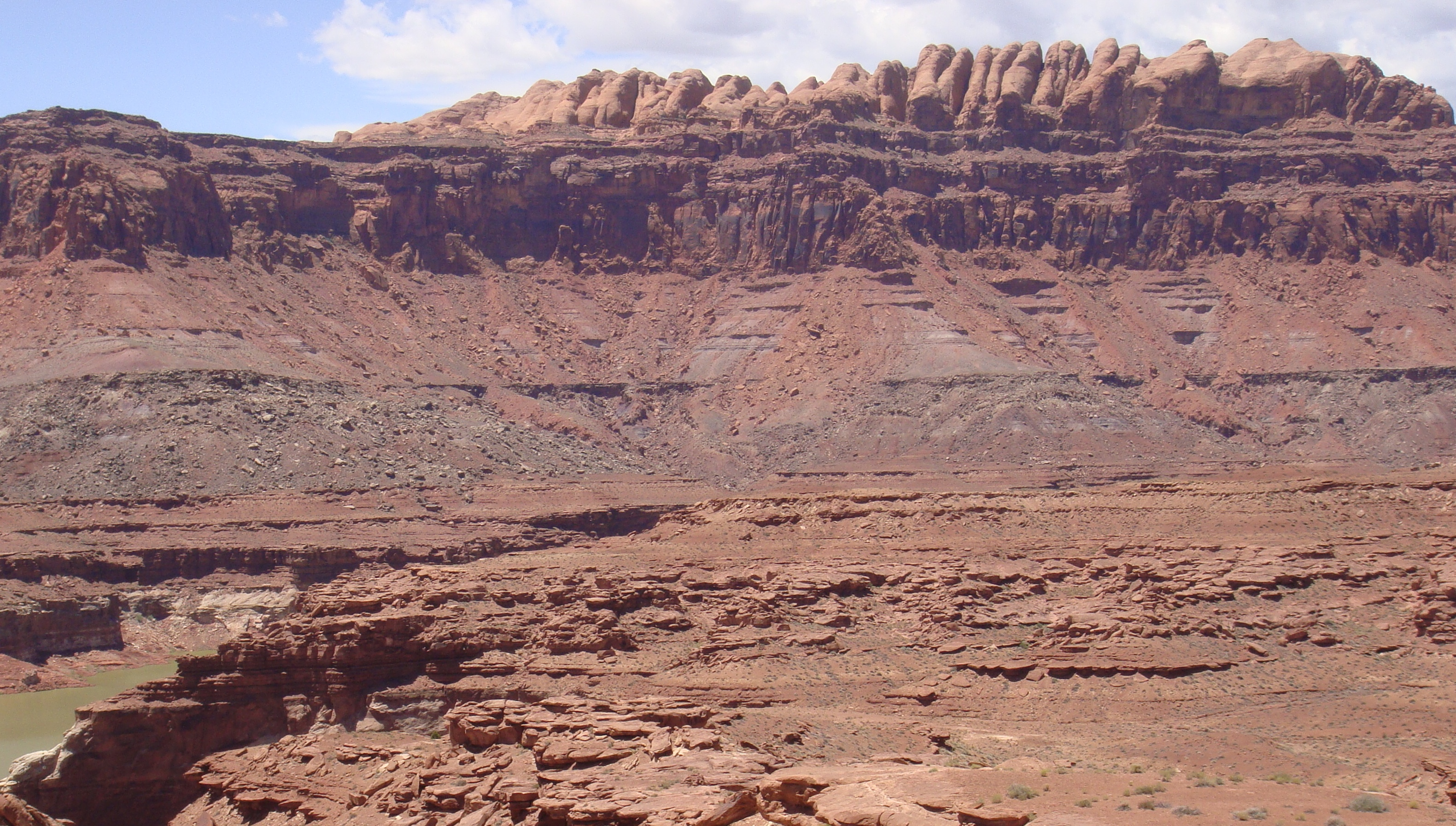 The Permian (bottom) through Jurassic (top) stratigraphy of the Colorado Plateau area of southeastern Utah that makes up much of the famous prominent rock formations in protected areas such as Capitol Reef National Park and Canyonlands National Park. From top to bottom: Rounded tan domes of the Navajo Sandstone, layered red Kayenta Formation, cliff-forming, vertically-jointed, red Wingate Sandstone, slope-forming, purplish Chinle Formation, layered, lighter-red Moenkopi Formation, and white, layered Cutler Formation sandstone. Picture from Glen Canyon National Recreation Area, Utah. (modified version, 26MAY-2012, after change on Moenkopi Formation; changing (3) to a (3A,3B), with explanations, because of the larger photo RED debris visible.)The Jurassic through Permian stratigraphy of the Colorado Plateau area of southeastern Utah that makes up much of the famous prominent rock formations in protected areas such as Capitol Reef National Park and Canyonlands National Park. From top to bottom, (Jurassic to Permian): (6)-Rounded tan domes of the Navajo Sandstone, (5)-(very-dark)-layered red Kayenta Formation, (4)-(very-dark)-cliff-forming, vertically-jointed, red Wingate Sandstone, (3B)-(RED debris covered)-slope-forming, purplish Chinle Formation, (3A)-(NO RED Debris)-slope-forming, purplish Chinle Formation, (2)-layered, lighter-red Moenkopi Formation, and (1)-white, layered Cutler Formation sandstone. Picture from Glen Canyon National Recreation Area, Utah.)-(this makes 7 Layers, or there are 6 Layers with 3A, and 3B)